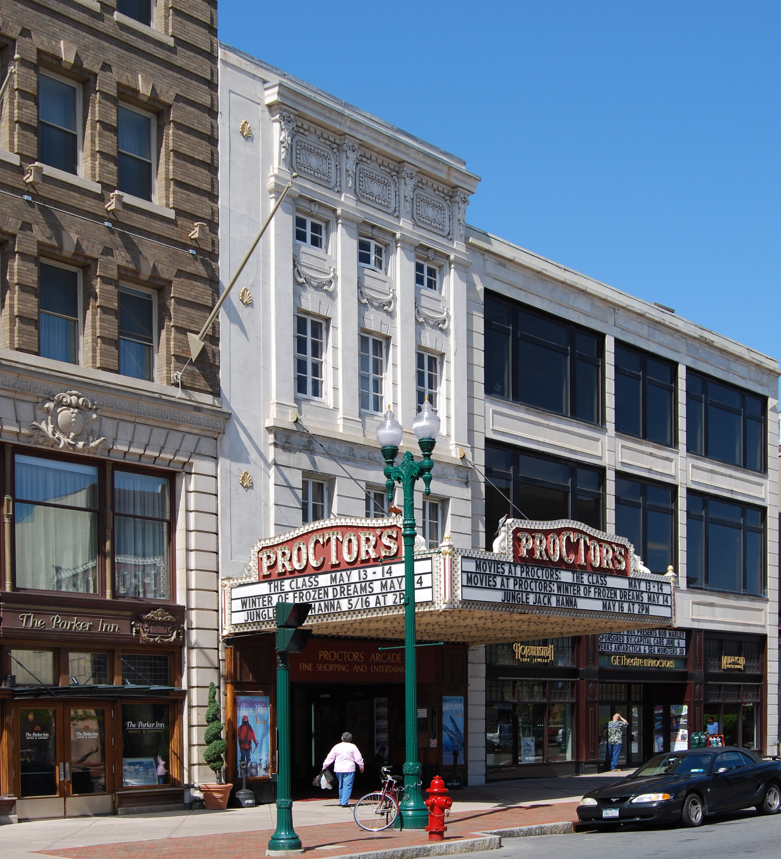 Entrance to Proctor's Theatre on State Street in Schenectady, New York, United States